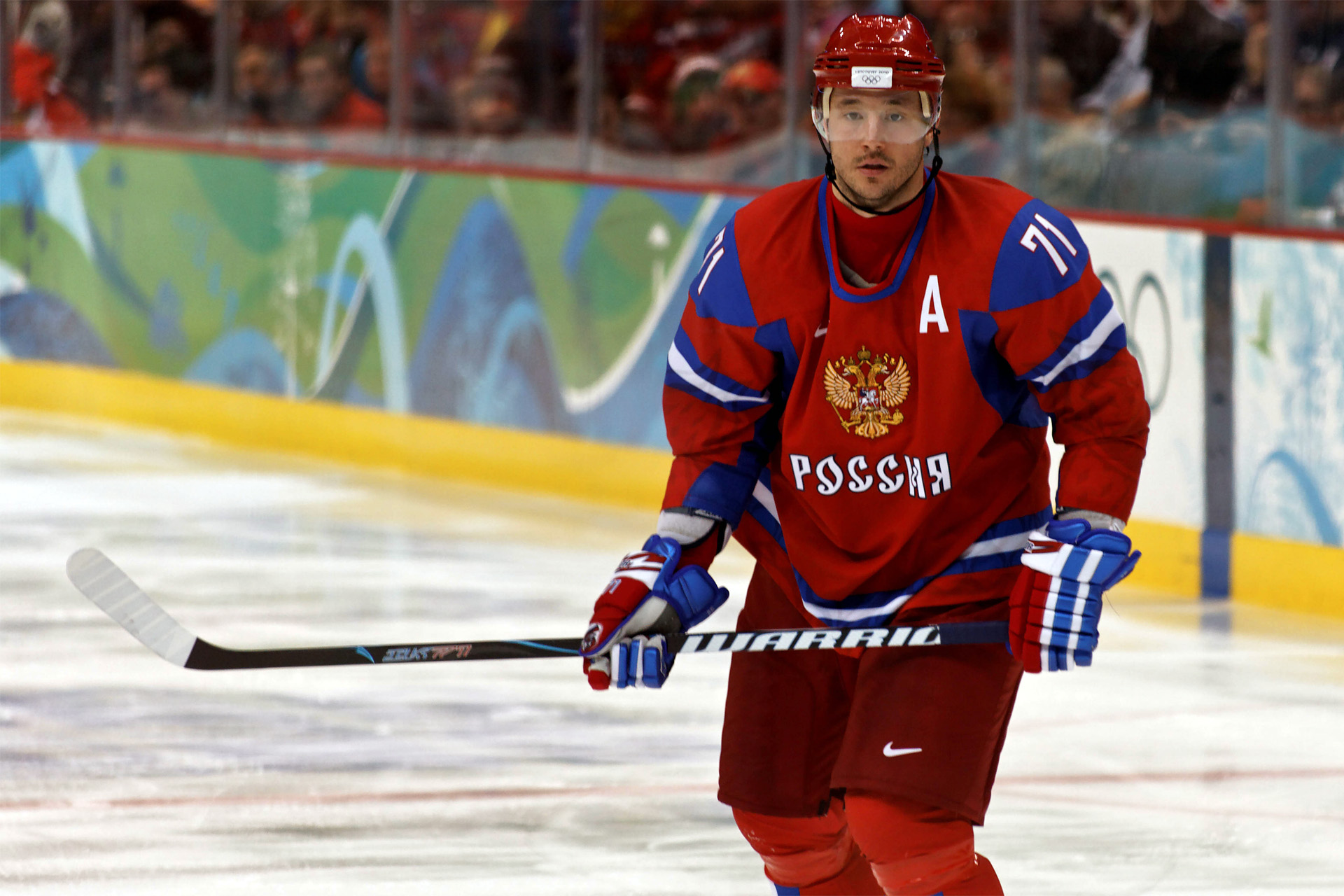 Russia forward Ilya Kovalchuk watches the play against Czech Republic during the 2010 Winter Olympics